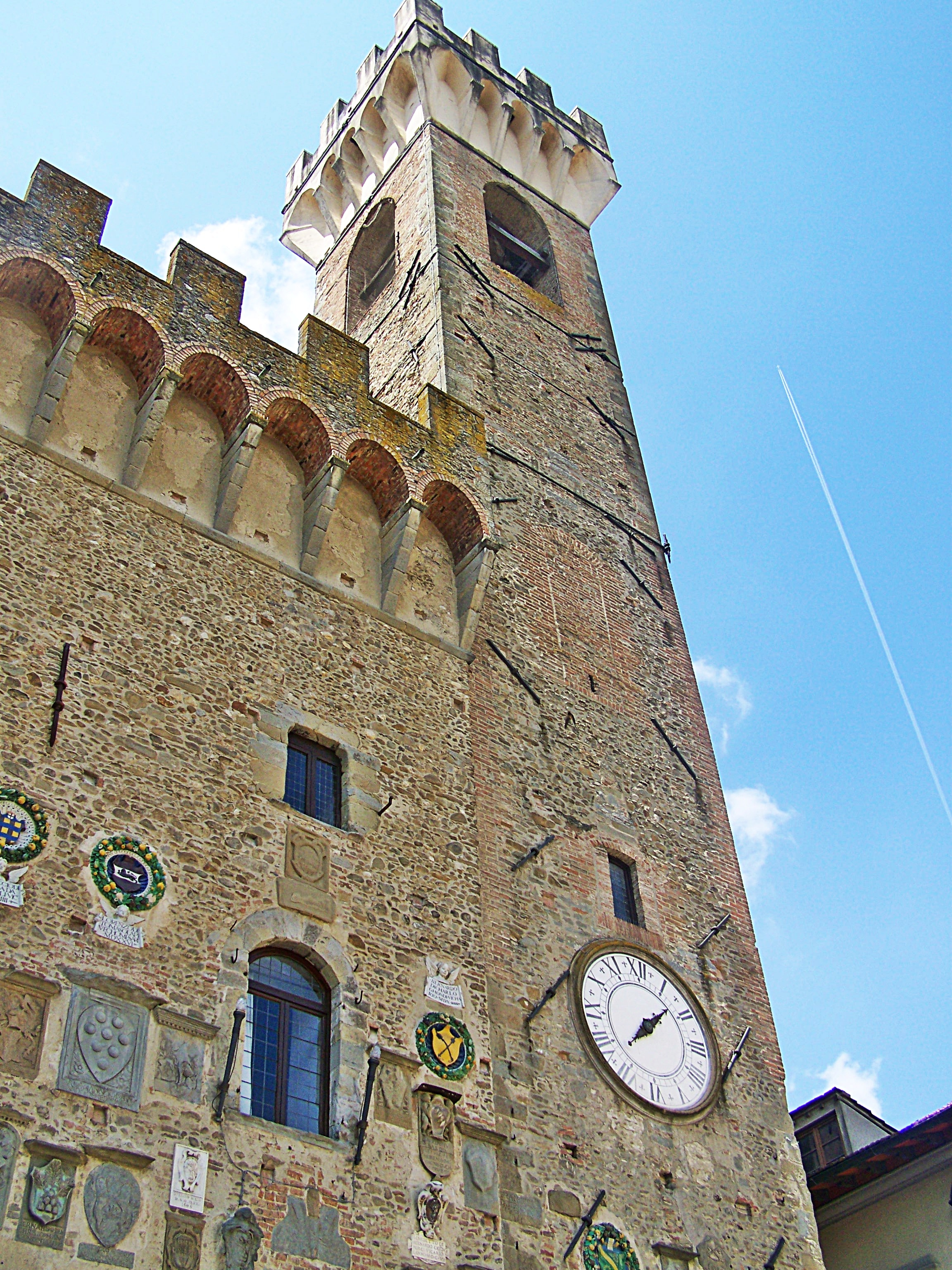 Scarperia-Palace of the Vicars-clock